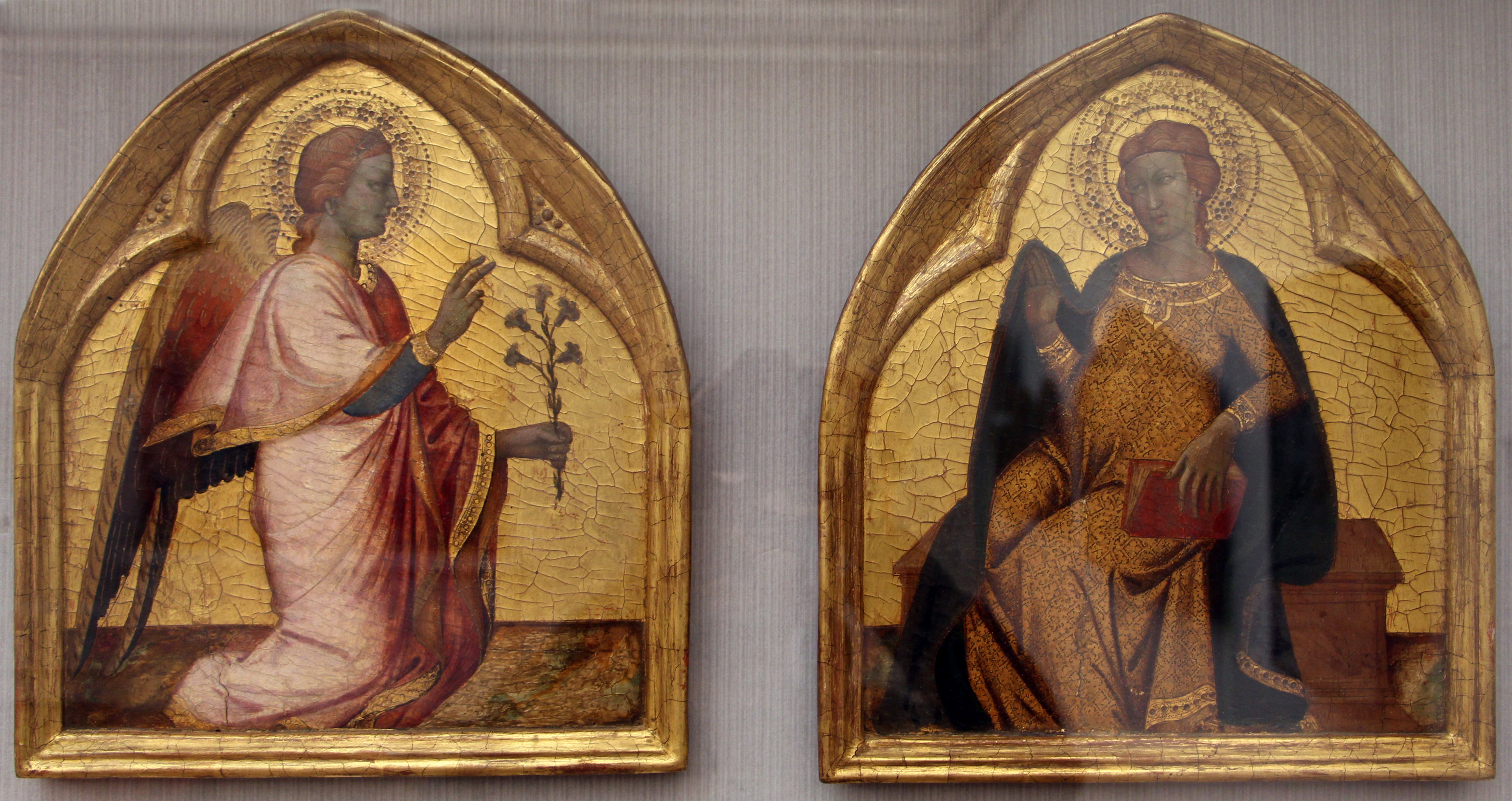 Italian Gothic paintings in the Gemäldegalerie, Berlin